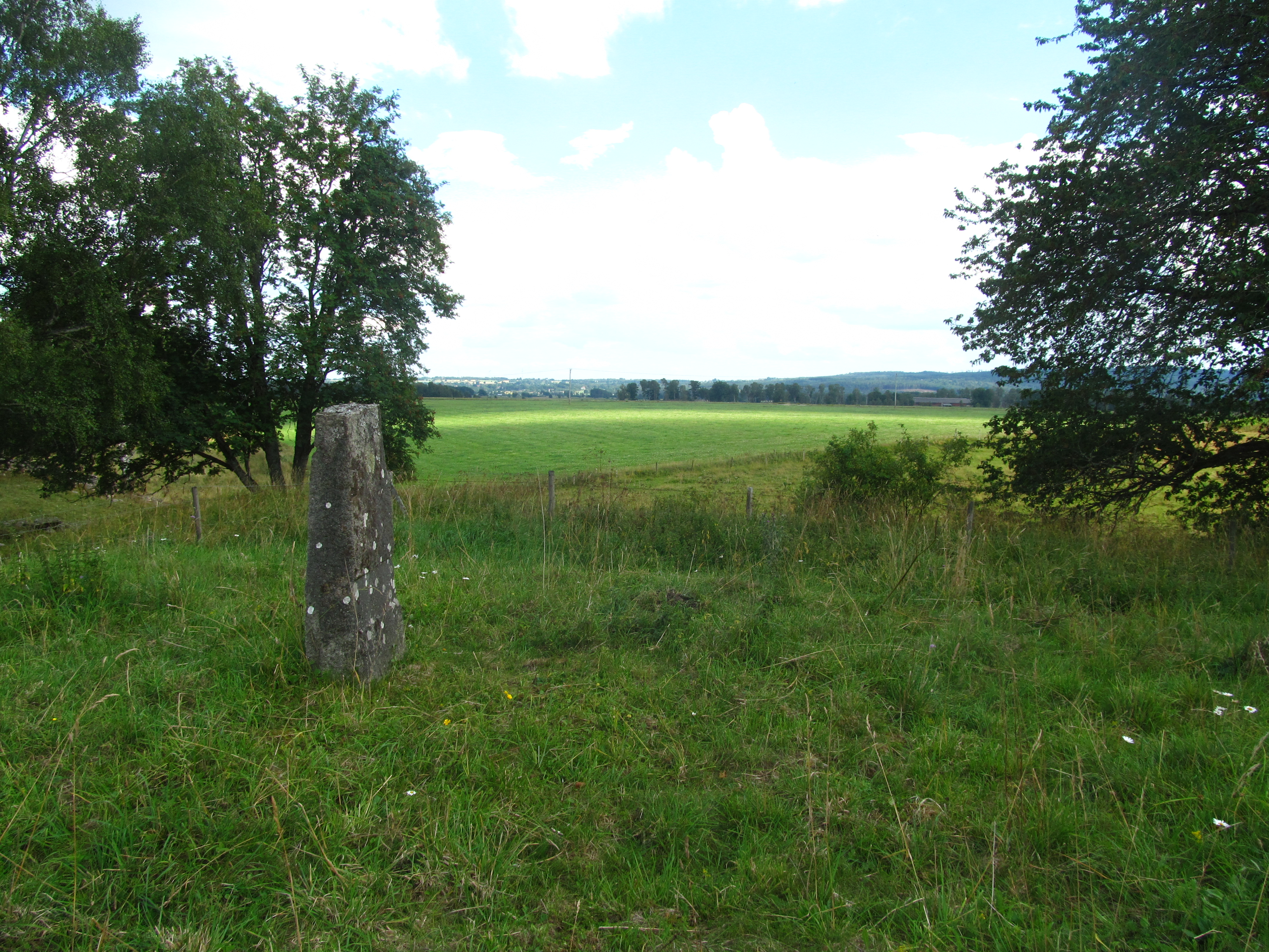 Place of Mårby old church, demolished in the mid 18th century